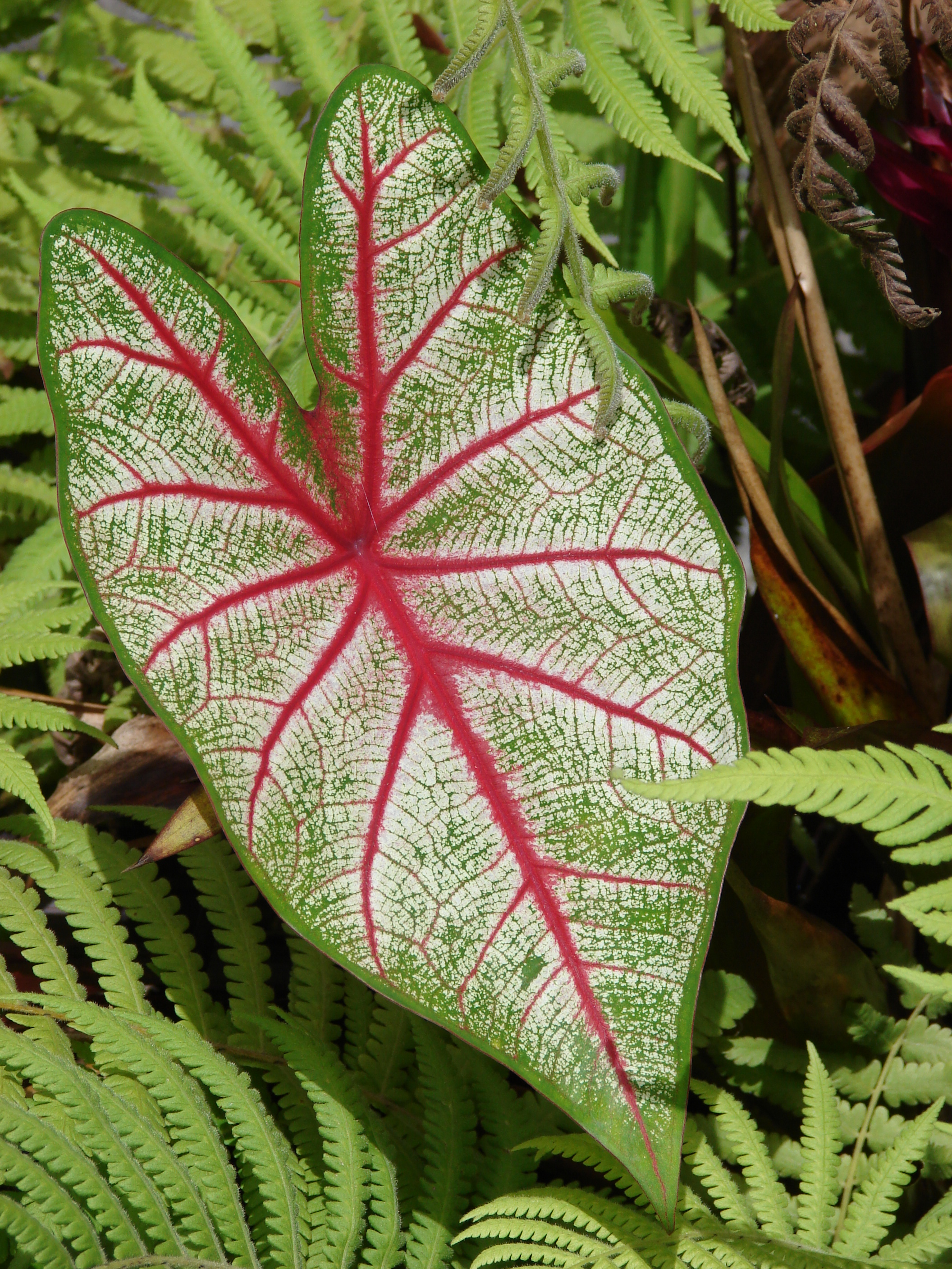 Caladium bicolor (leaf). Location: Maui, Nahiku